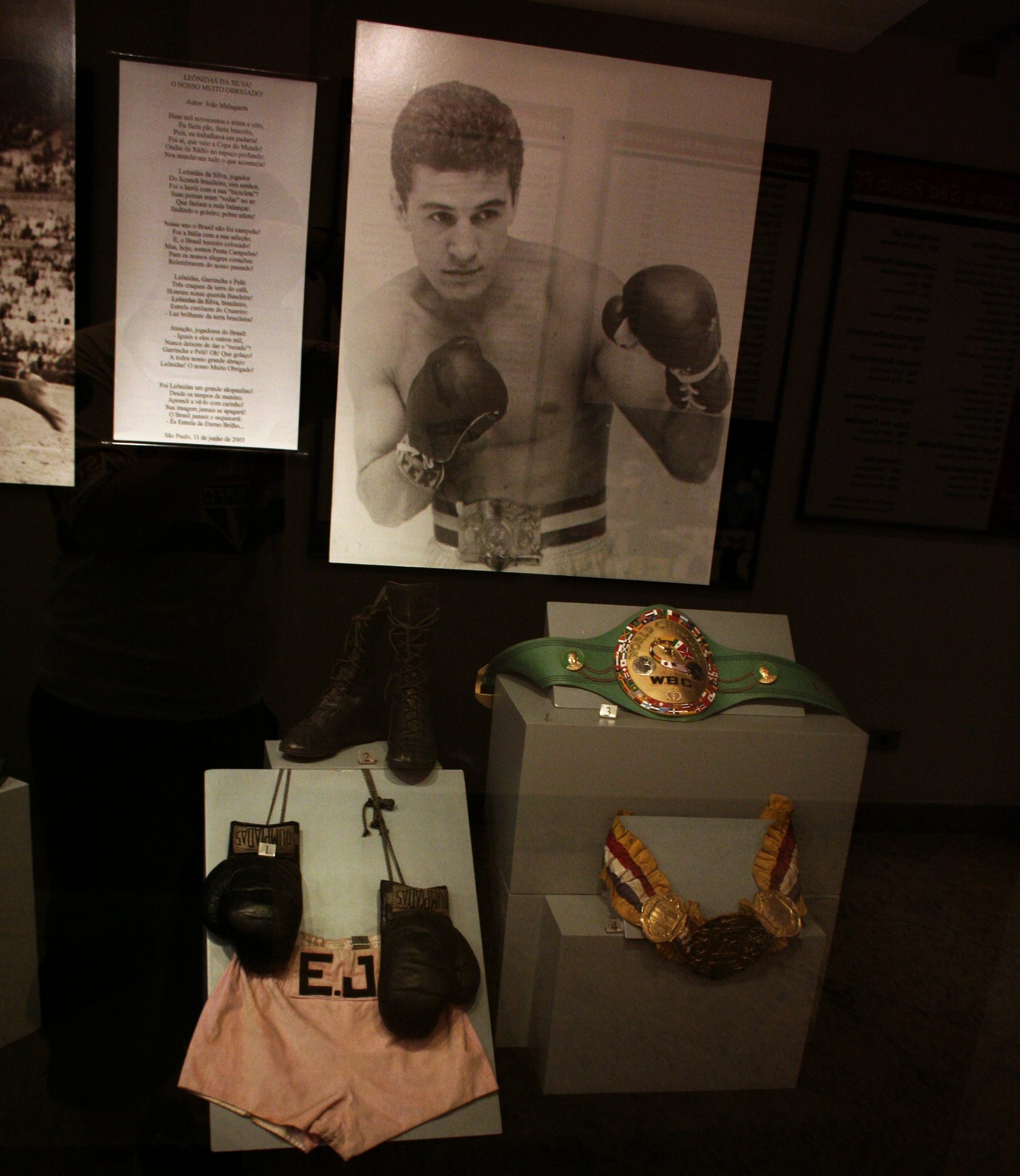 tribute to Éder Jofre in the Luiz Cássio dos Santos Werneck memorial, located in the Cícero Pompeu de Toledo stadium, known as Morumbi.